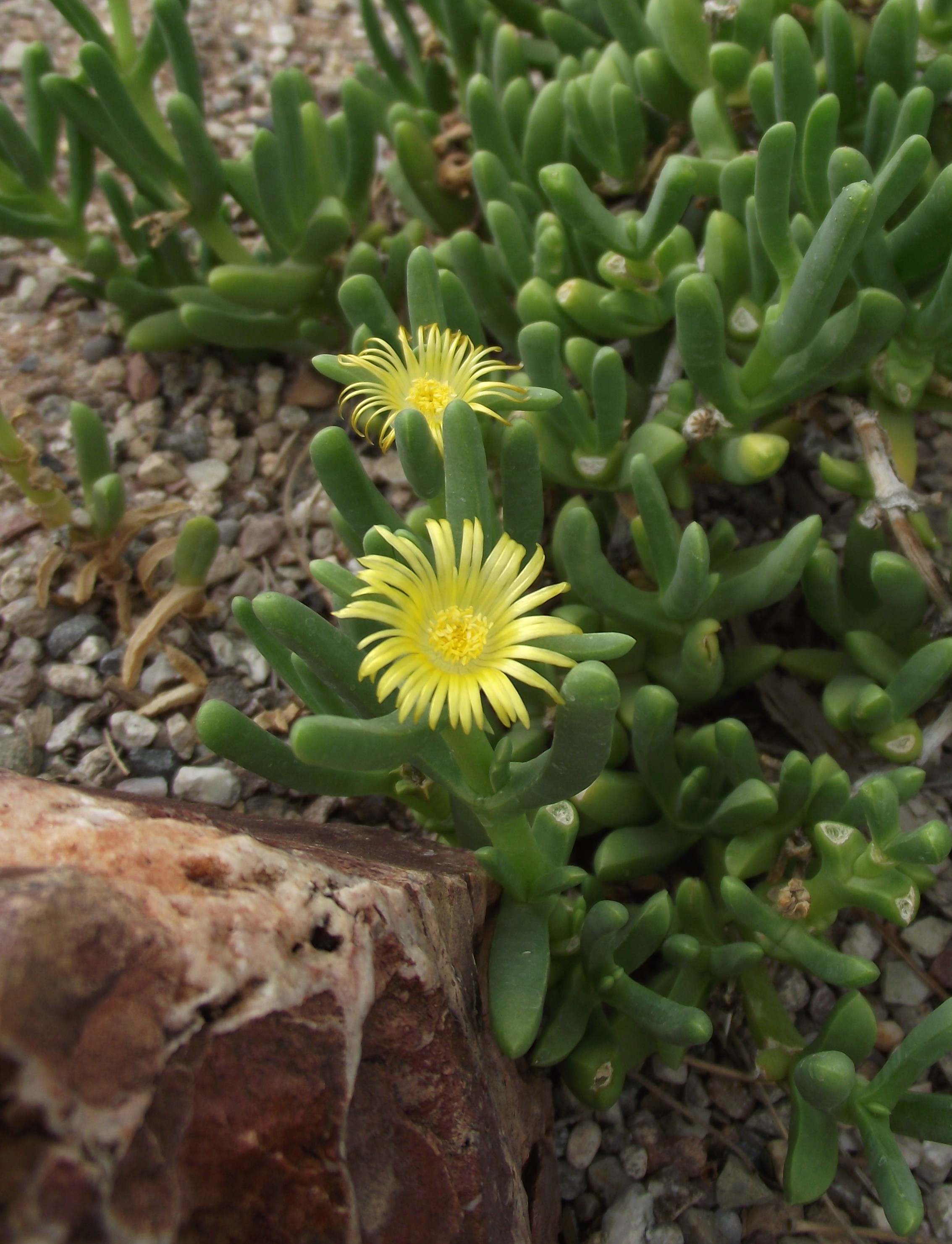 Malephora lutea at Tucson Botanical Gardens, Tucson, Arizona, USA. Identified by sign.